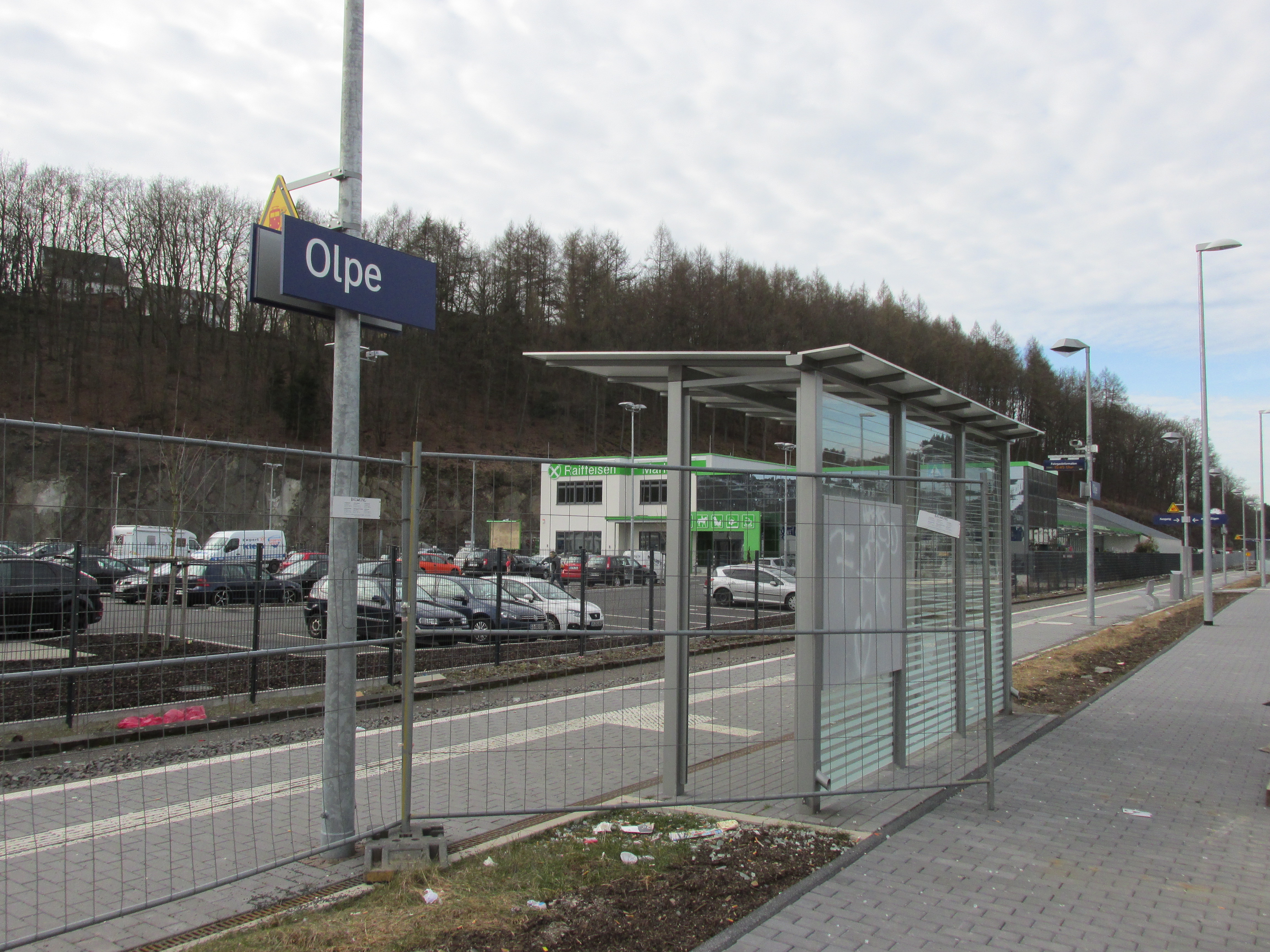 Train station, Olpe, Germany check usage